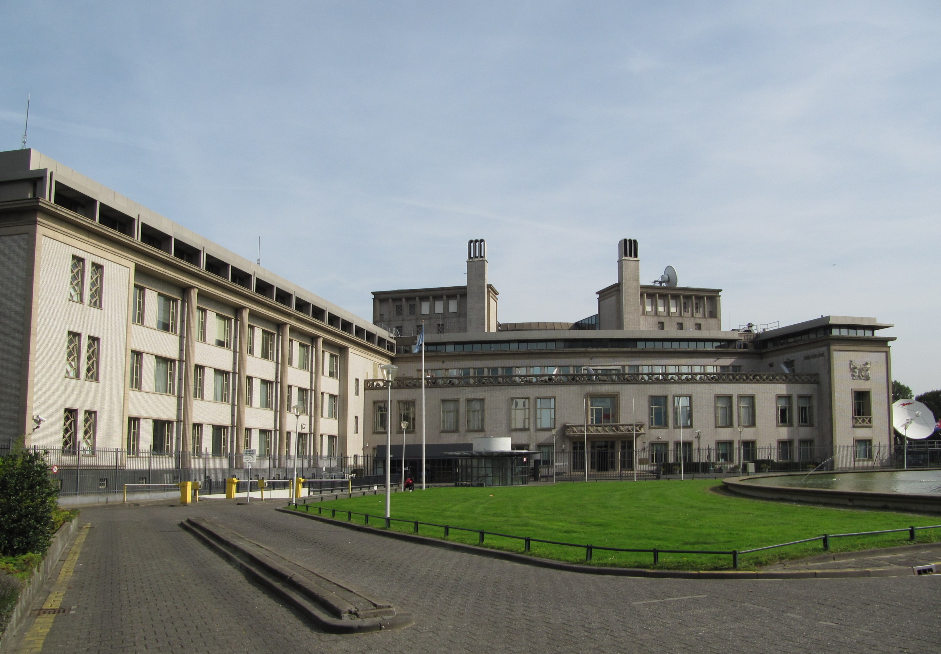 Aegongebouw, Joegoslavië-tribunaal